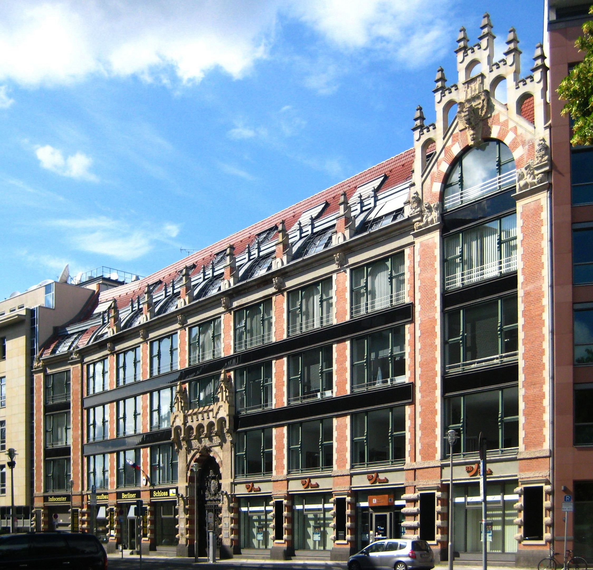 Commercial building "Am Bullenwinkel" ("At the Bulls' Corner") at Hausvogteiplatz 3-4 in Berlin-Mitte, built 1892-1893 by the architectural office Alterthum and Zadek. It was constructed on an irregularly shaped lot after two building had been torn down to make a breach from Taubenstraße (on the left) to Hausvogteiplatz. Post-WWII alterations to the facade were reversed during renovation from 1996 to 1997, thus giving the building back its original outlook. It is now seat of the Embassy of Slovenia in Germany and of an information center on the reconstruction of the Berlin Palace. The building is landmarked.